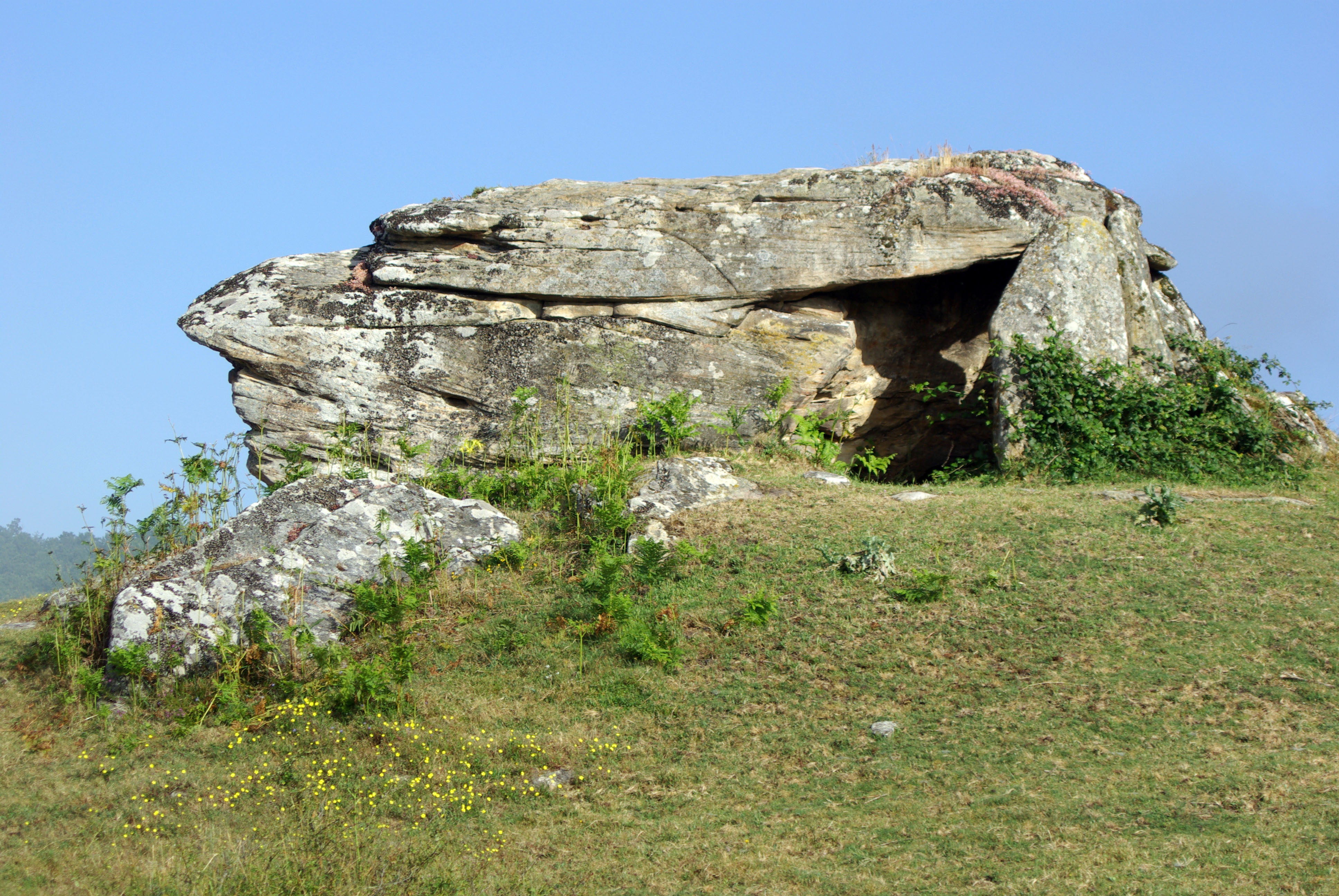 Dolmen of Busnela, Burgos (Spain)